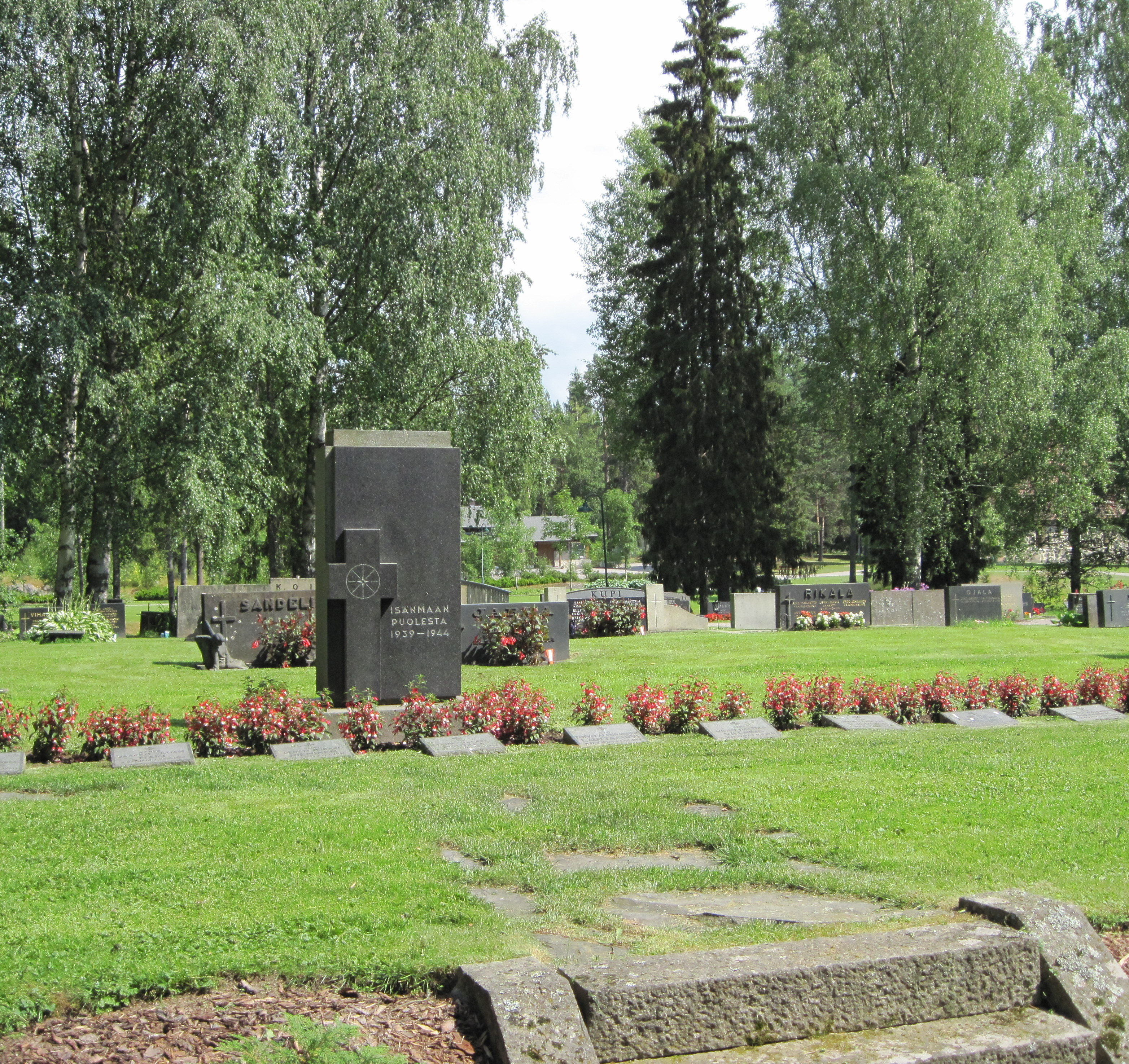 Military cemetary at Aitolahti church in Aitoniemi, Finland